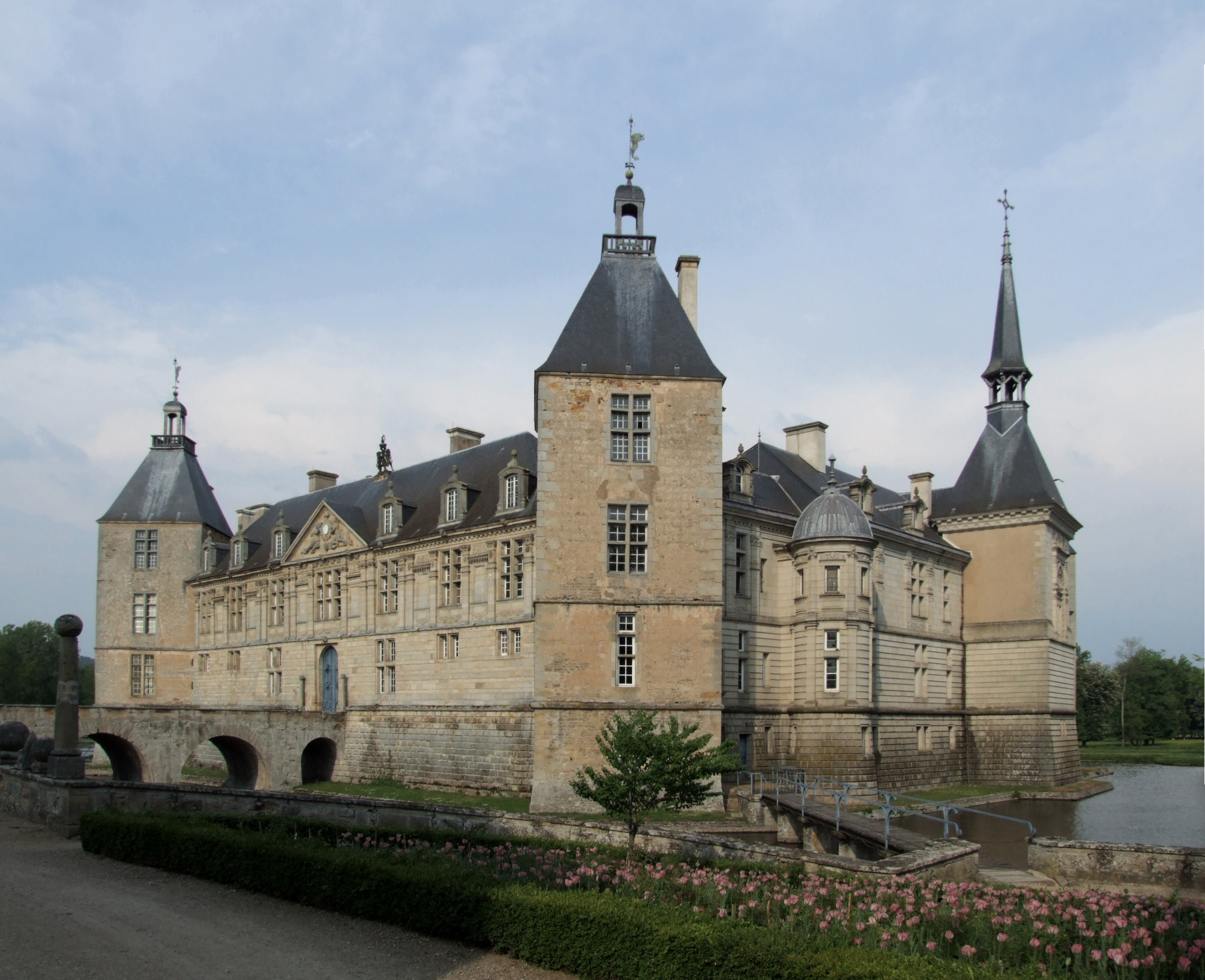 Château de Sully, Saône-et-Loire